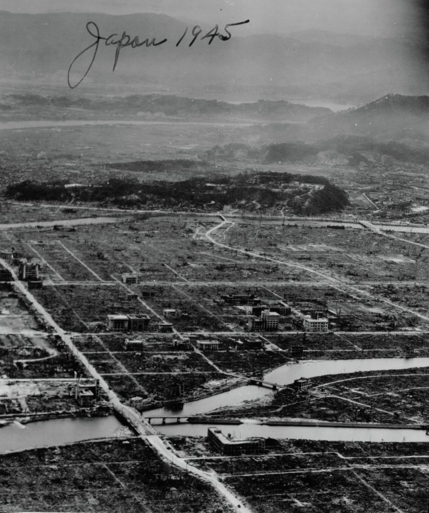 PictionID:38276386 - Catalog:AL-135B 244 - Filename:AL-135B 244.tif - This image is from a photo album donated to the Museum by JL Highfill which includes images taken in the Pacific during the Second World War-----------PLEASE TAG this image with any information you know about it, so that we can permanently store this data with the original image file in our Digital Asset Management System.-----------------SOURCE INSTITUTION: San Diego Air and Space Museum Archive